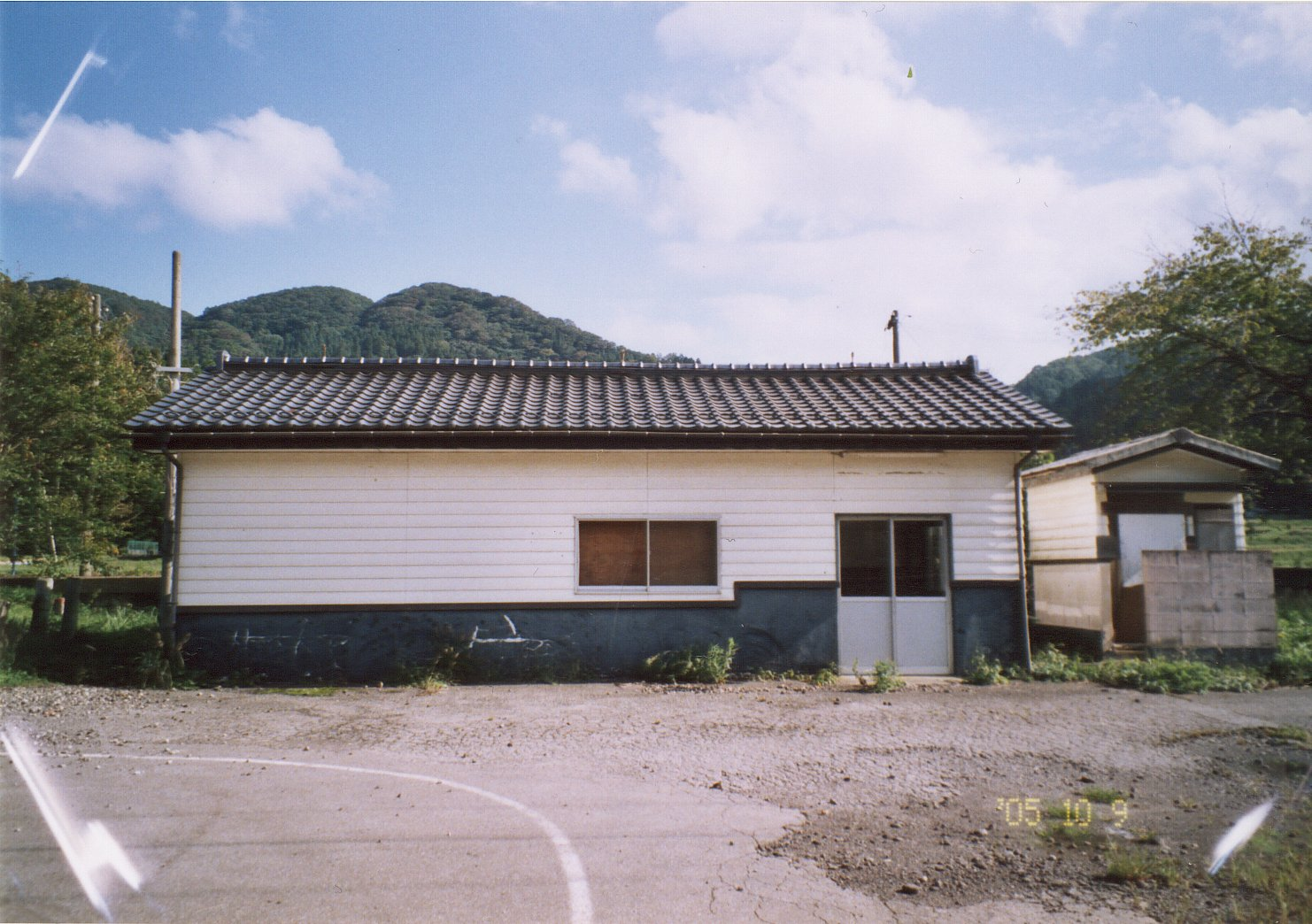 The remains of Noto-ichinose Station, Noto Railway on October 9, 2005.